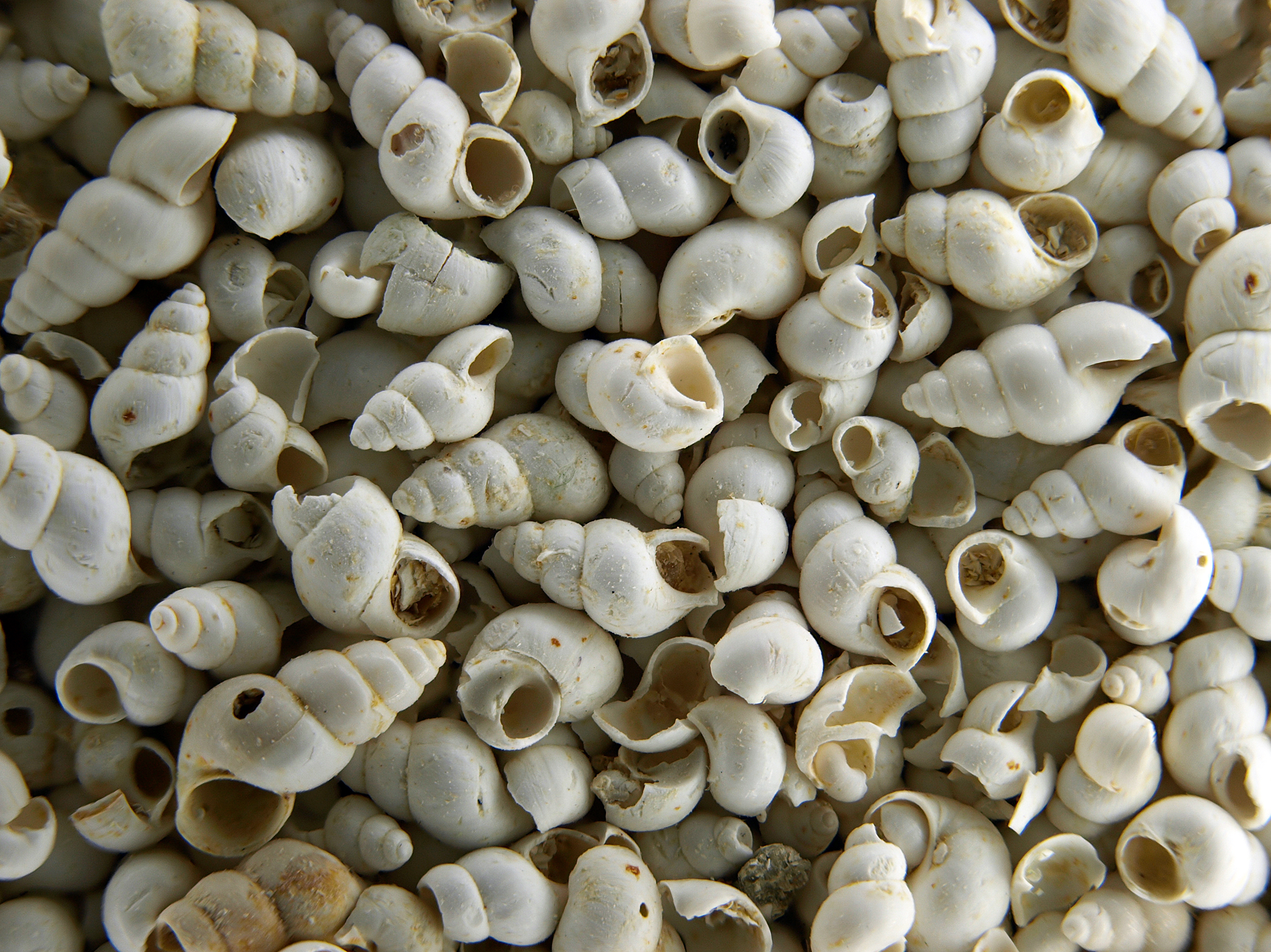 Sand collection, Museum Wiesbaden, found at quarry Dyckerhoff, Wiesbaden, Germany. Close-up photograph, grainsize between 0,063 - 0,2 mm